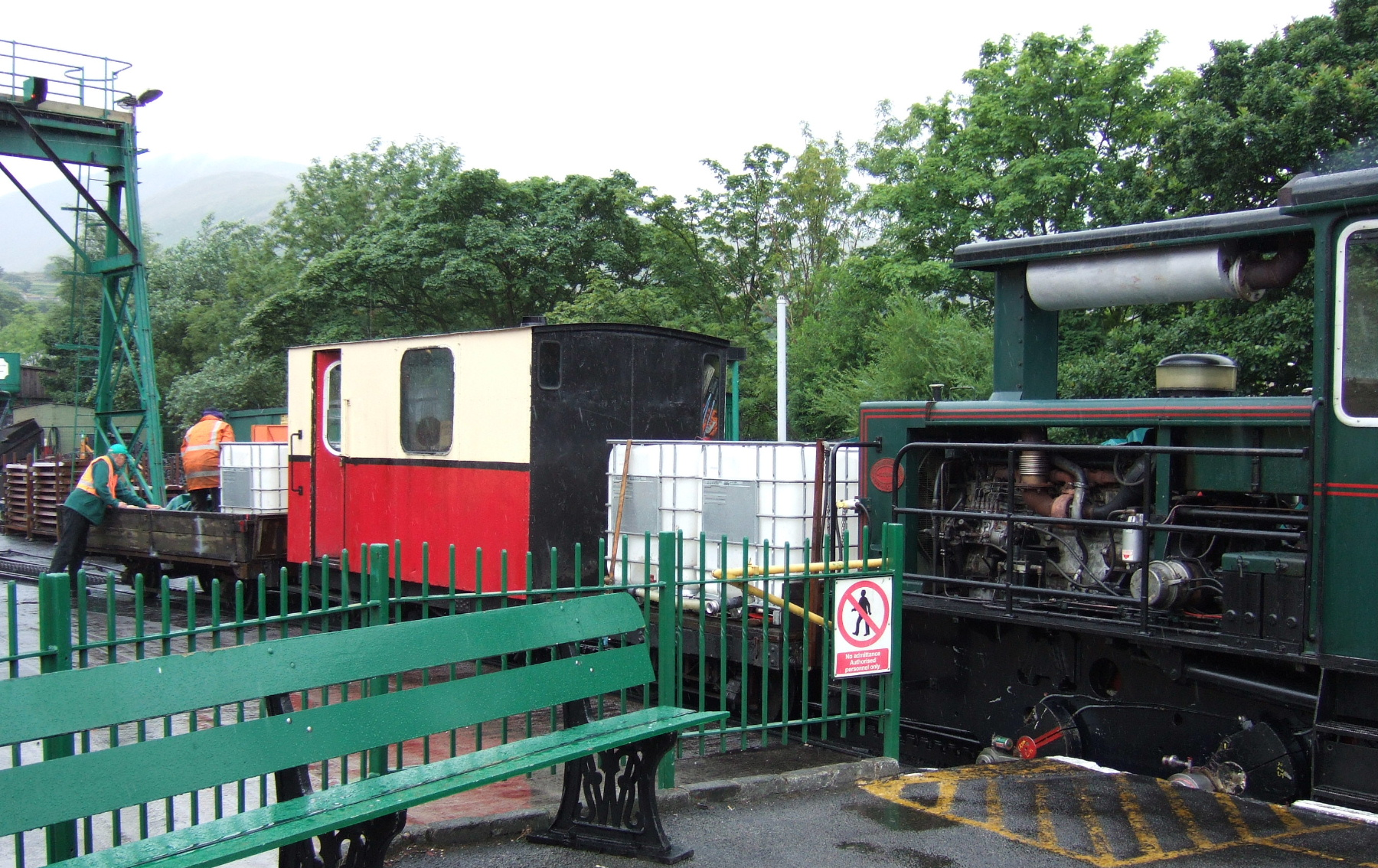 Snowdon Mountain Railway. The works train at Llanberis, mid morning. The Rubbish from the day before was being unloaded from the open wagon. On this particular day, the wind was too strong for trains to run to the summit, but the works train had been there. 24th July 2005 Photographer - A.M.Hurrell Camera - Fuji FinePix F10 Modified - Trimmed and file size reduced using Finepix Software